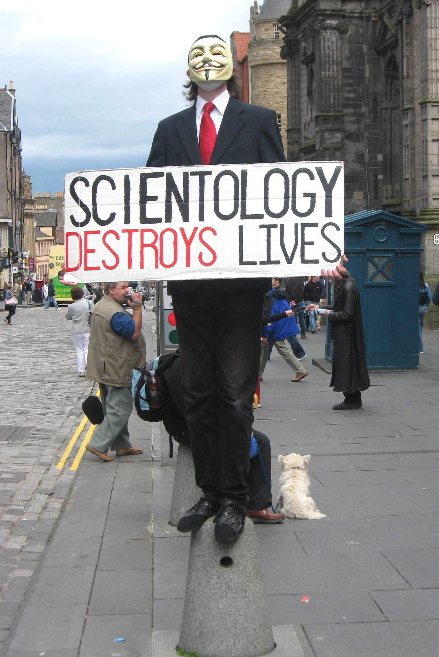 Scientology protestor in Guy Fawkes mask in Edinburgh, Scotland